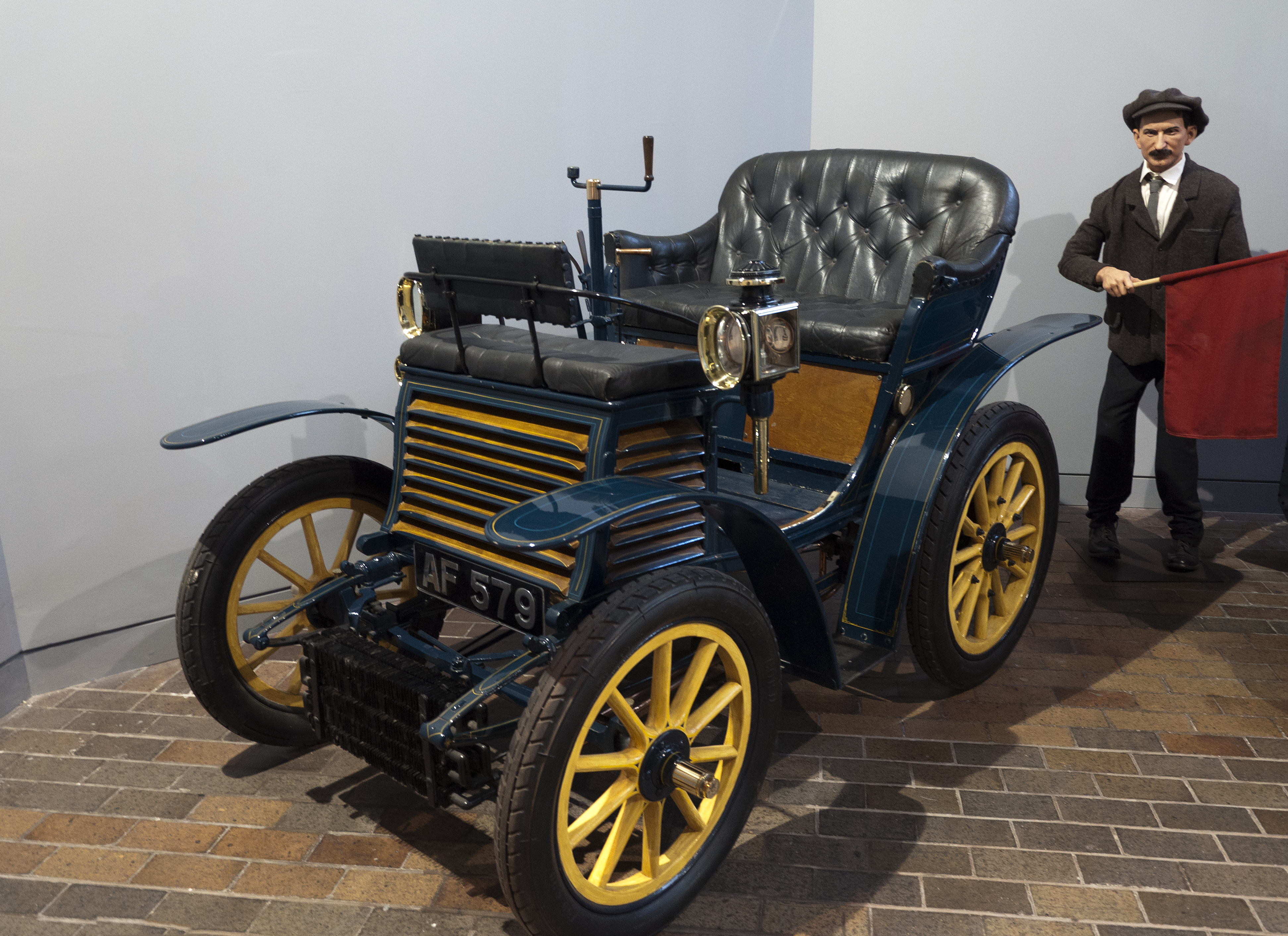 FIAT 4 HP at the National Motor Museum, Beaulieu